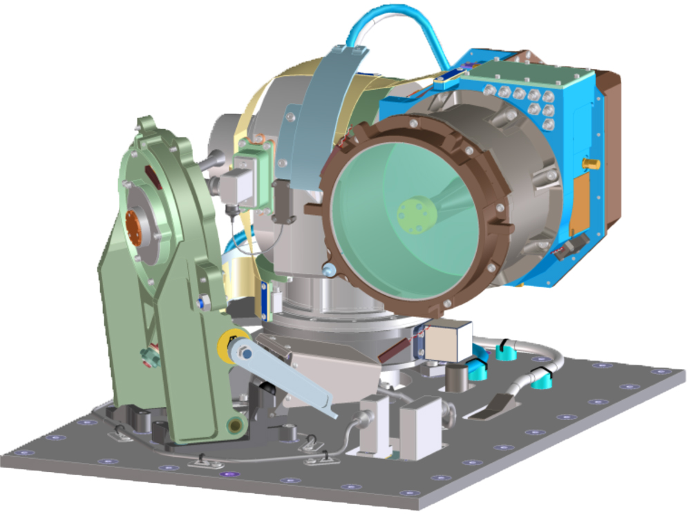 Computer rendering of LADEE's Lunar Laser Communication Demonstration optical module.